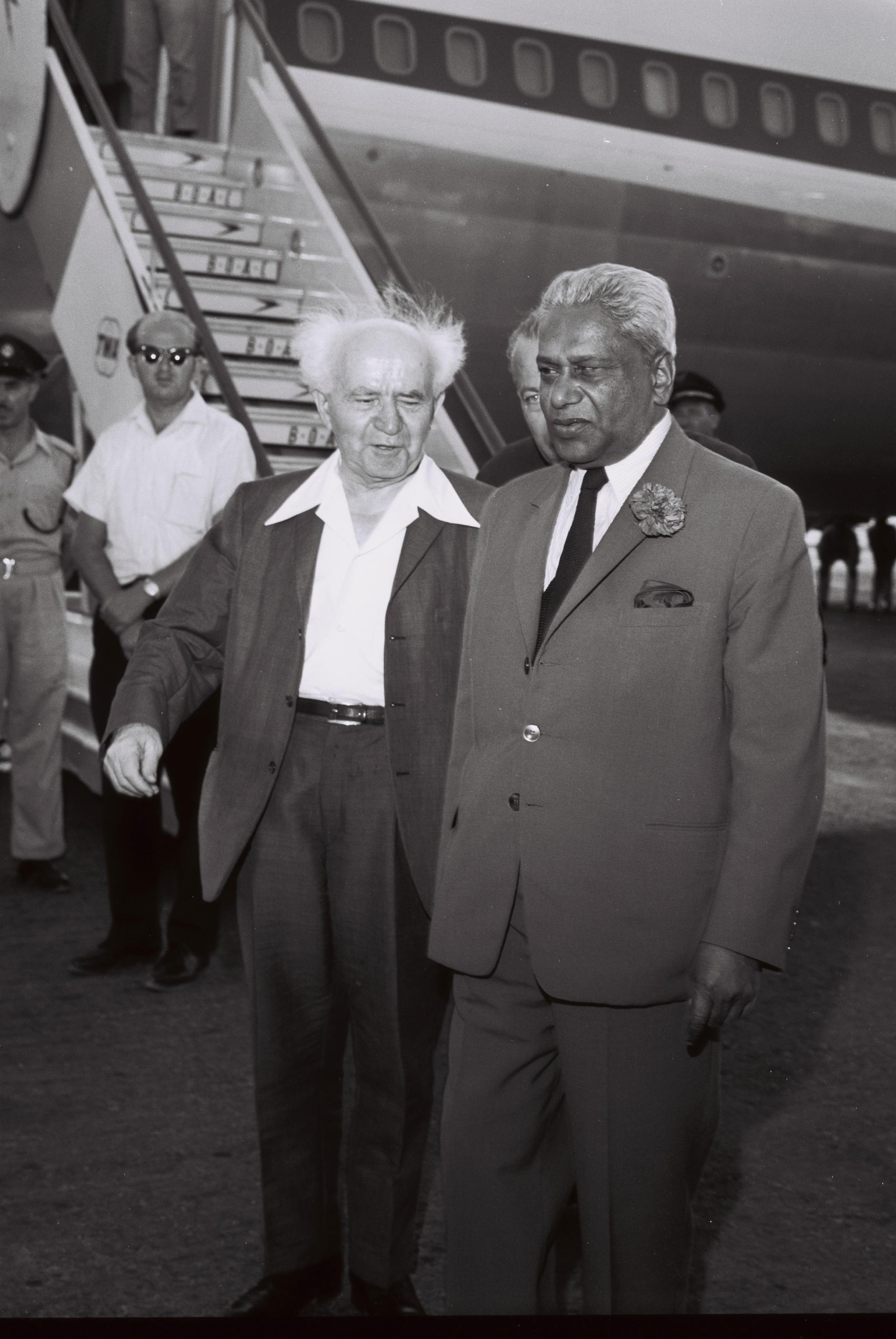 Seewoosagur Ramgoolam greeted by David Ben-Gurion at Lod airport,1962